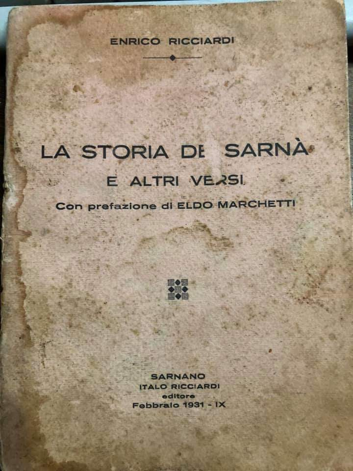 Book "La storia de Sarnà", publisher Italo Ricciardi, Sarnano city, year 1931